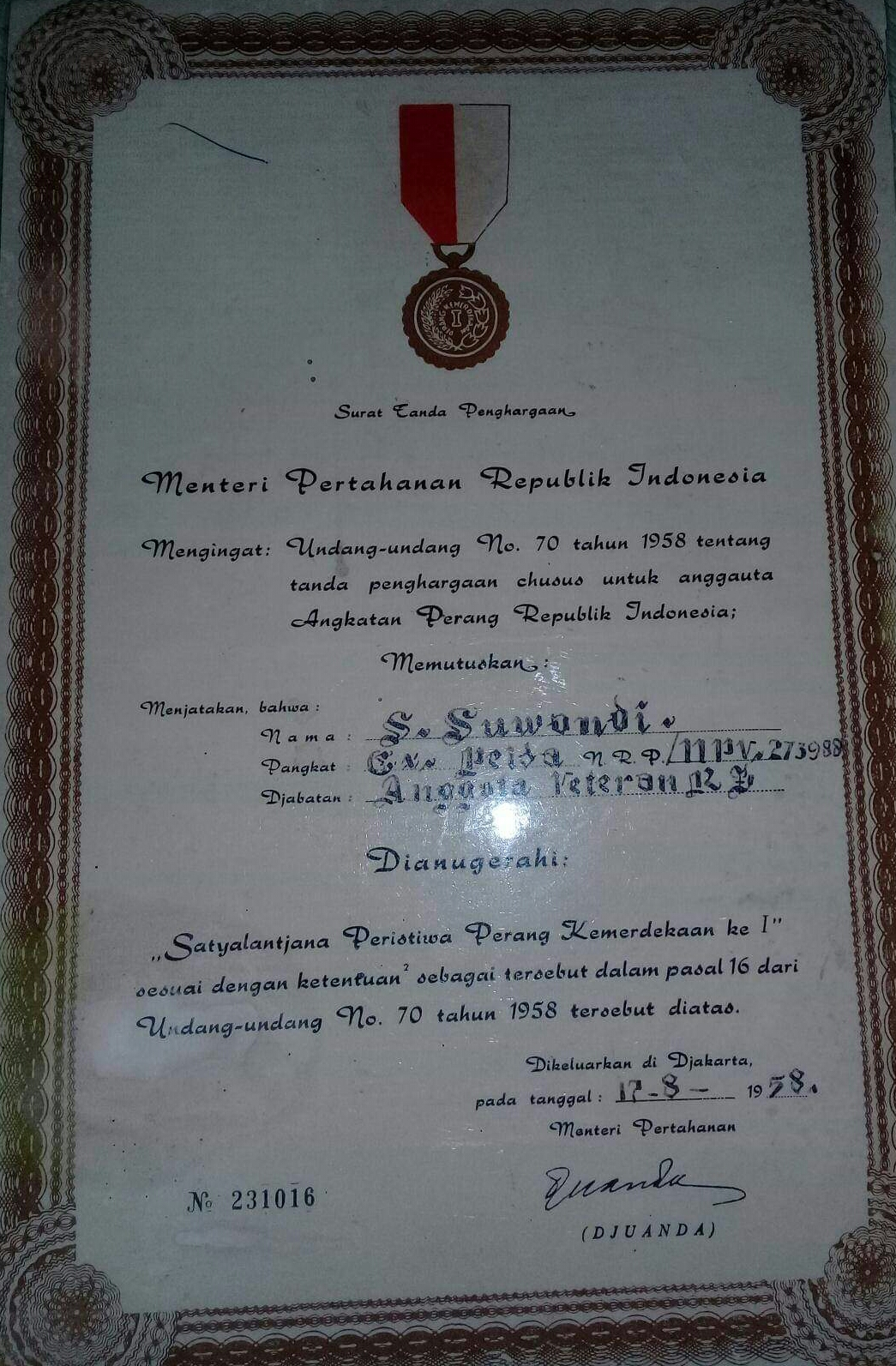 Suwandi Satya1